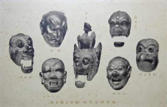 The kanji is written backwards on this postcard and the back is quite antiquated, thus I boldly assume it is clearly prewar, thus public domain by now. Atsuta shrine bugaku masks. Should be replaced with higher quality scan when available.